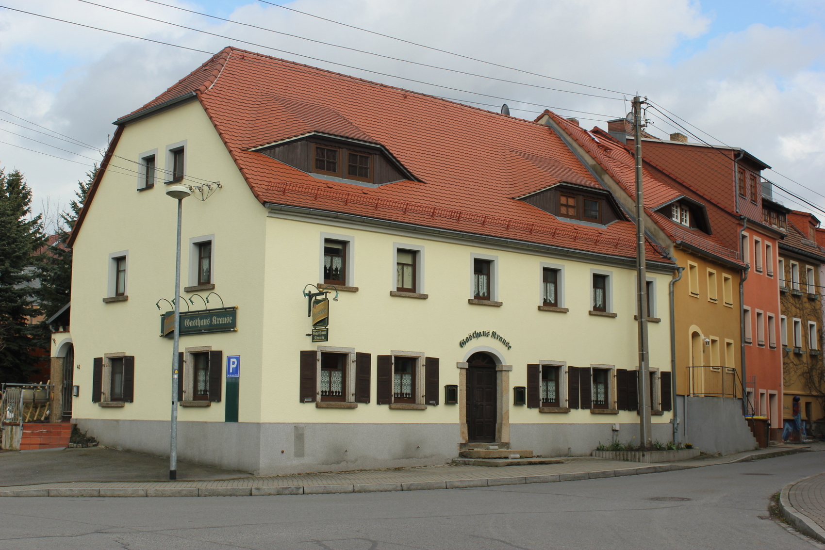 Bautzen, Seidauer Straße 40 (cultural heritage monument).Hornjoserbsce: This is a photograph of an architectural monument.It is on the list of cultural monuments of Bautzen Budyšin; Židowska 40. Kulturny pomnik: bydlenski dom a korčma z małym asymetriskim dworom, při róžku stejacy; wuznamny za městotwar a městnostne stawizny. W tutej chěži Jan Arnošt Smoler ze swójbu někak lětdźesatkaj bydleše.